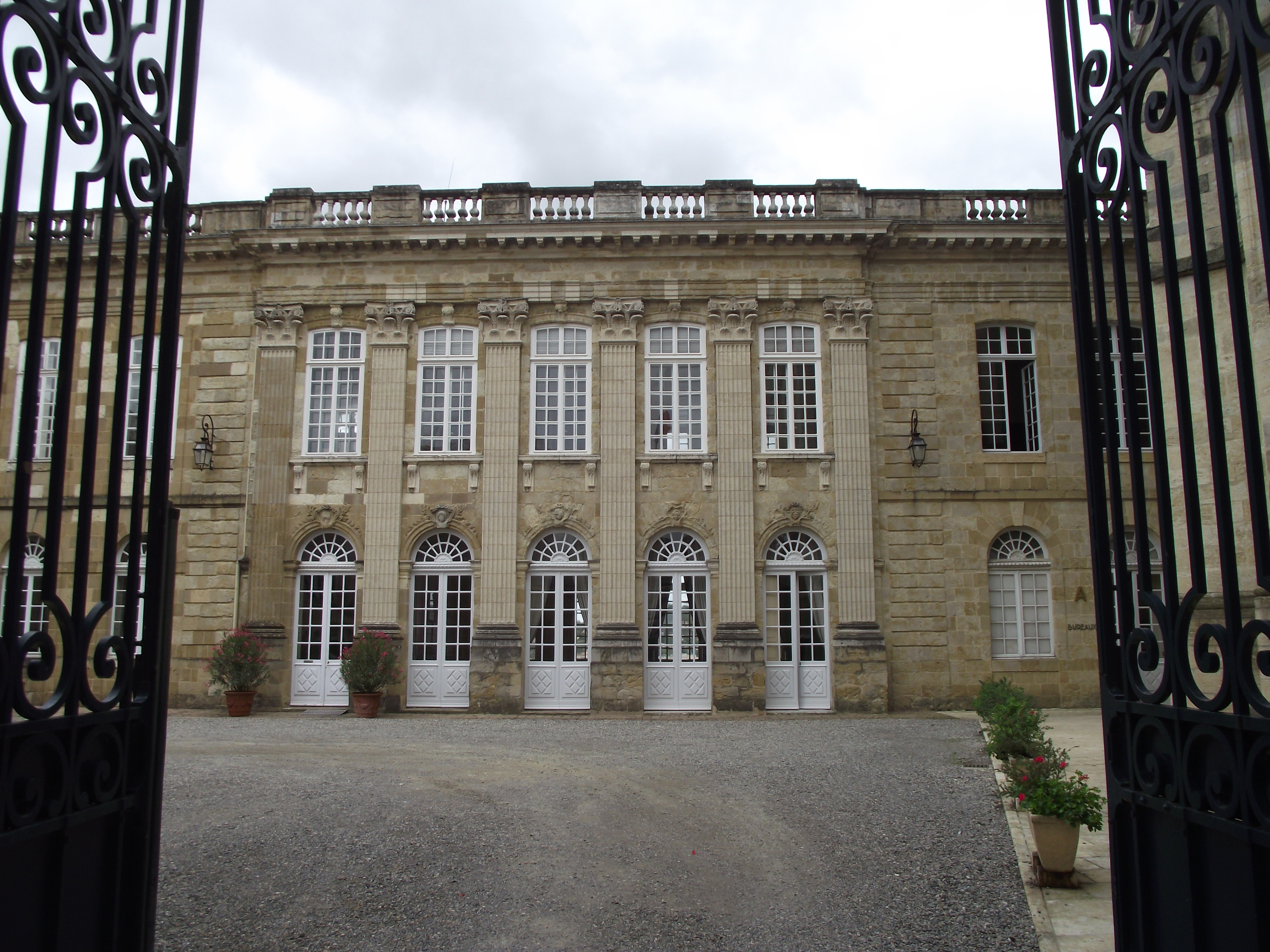 Auch, Bishop's Palace, Le Blond, 1742-45